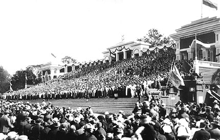 8th Song Celebration.